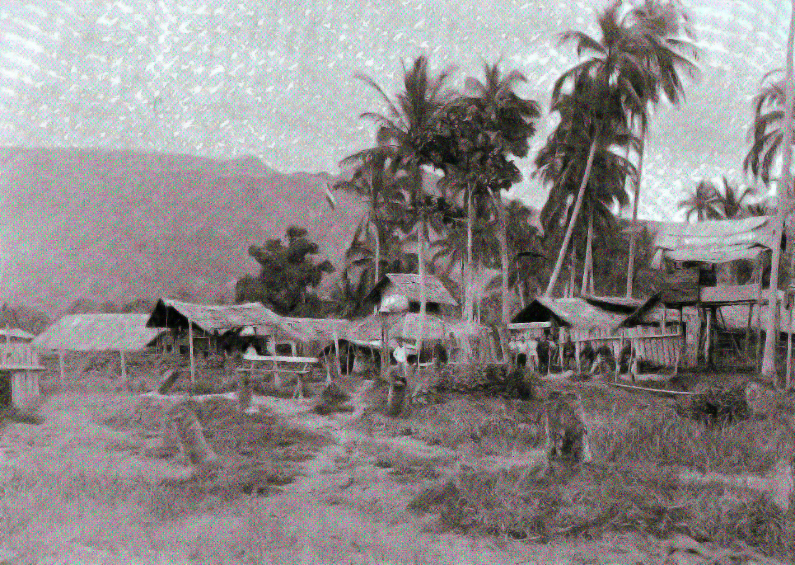 Lam Koenjit